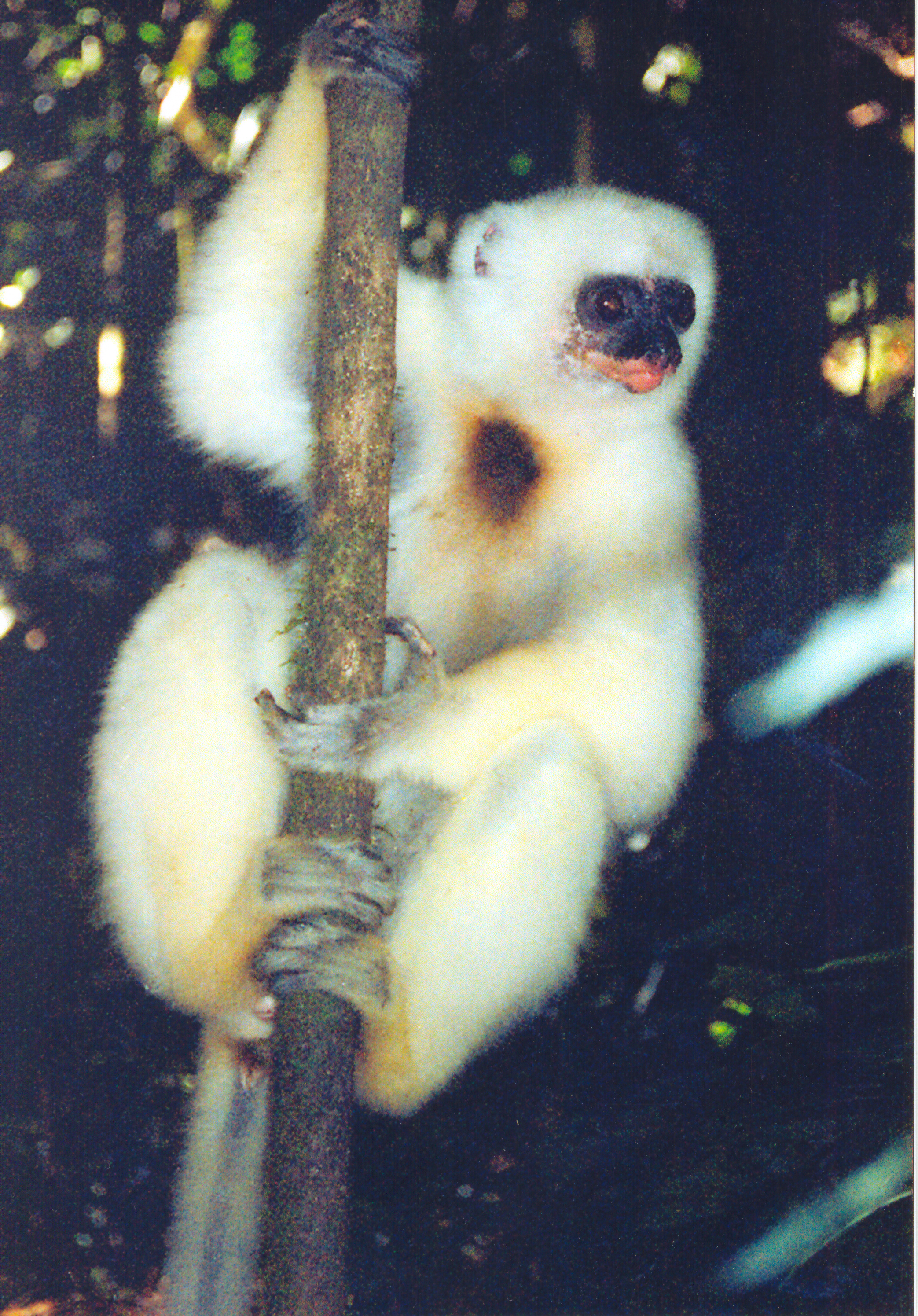 Photo of wild silky sifaka taken by myself in Marojejy National Park Madagascar